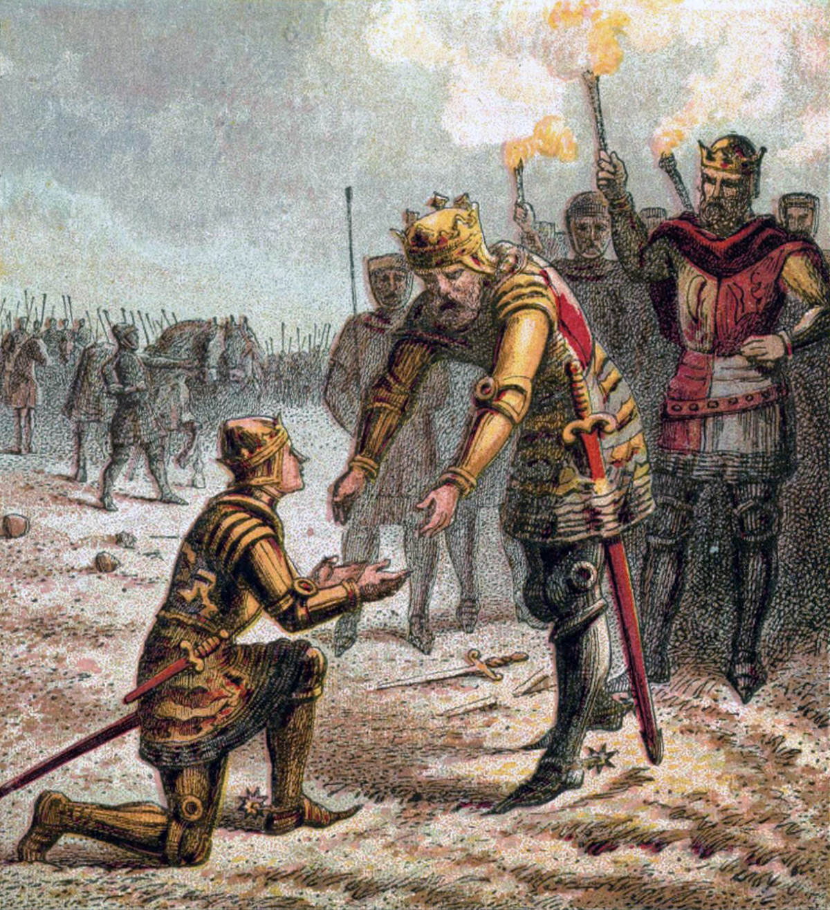 Edward III of England proudly receives his son, Edward, the Black Prince, for the successful conduct of the Battle of Crécy.